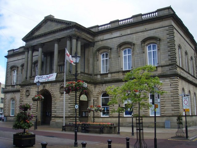 Accrington Town Hall Excellent Town Hall apparently